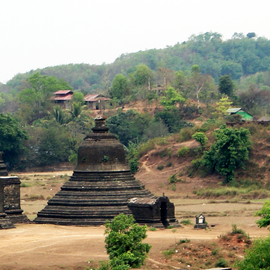 Nyi Taw Temple seen From Shite-thaung Temple